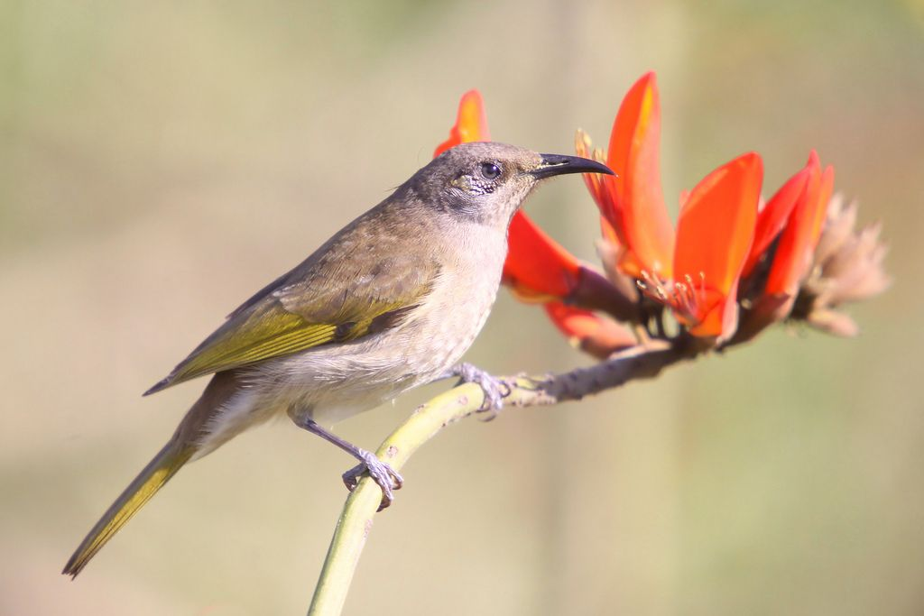 Brown Honeyeater in a Coral Tree